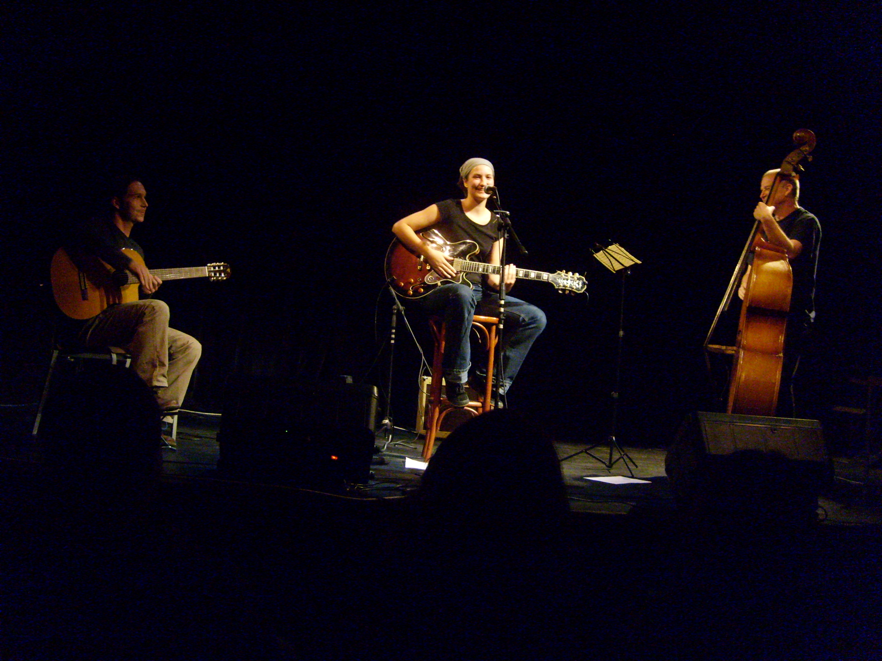 Martina Trchová, Patrik Henel a Michal Pospíšil, Divadlo Na Prádle, Prague, 12th September 2007